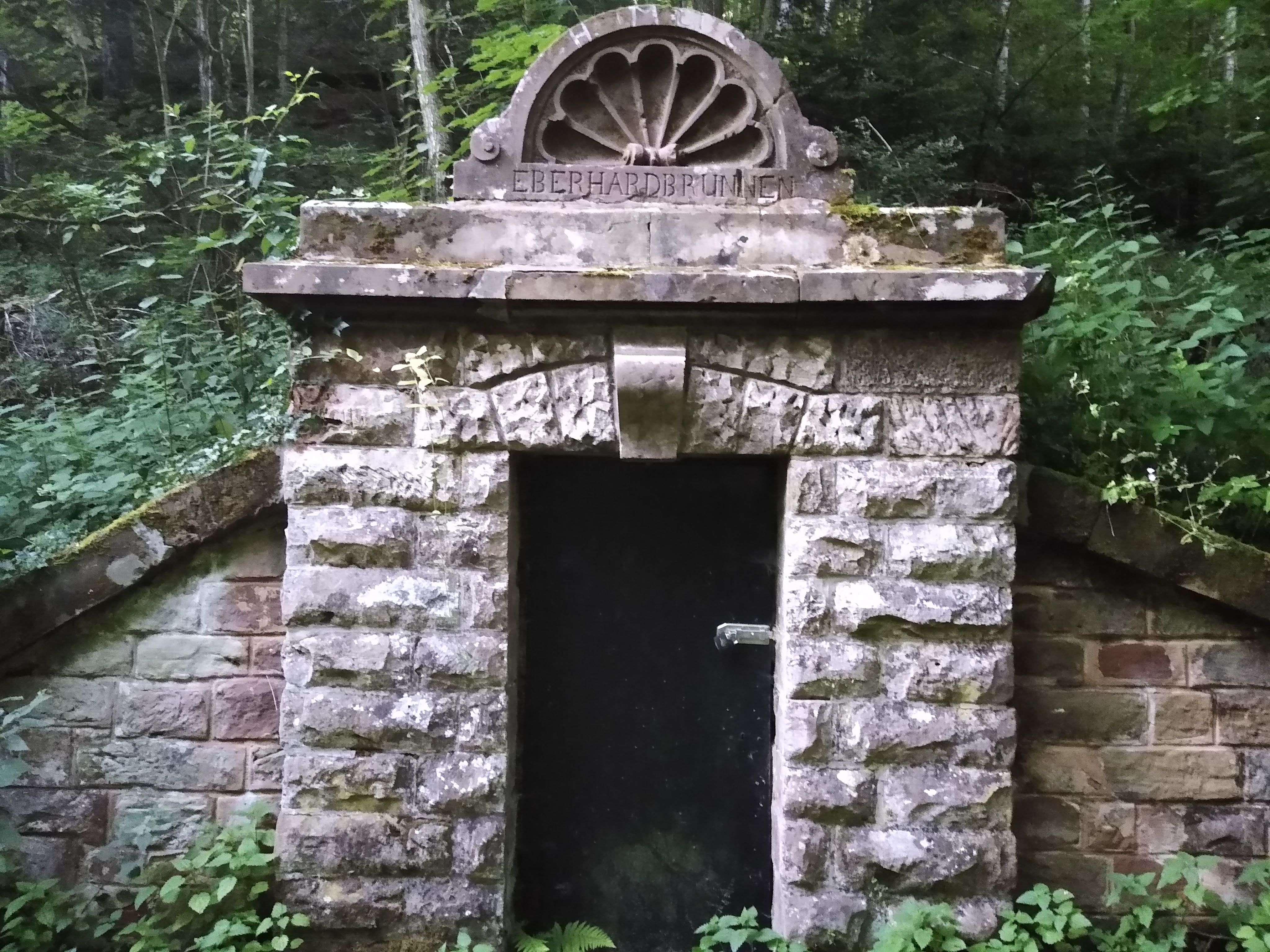 Eberhard Well in Einöd Saar, Germany